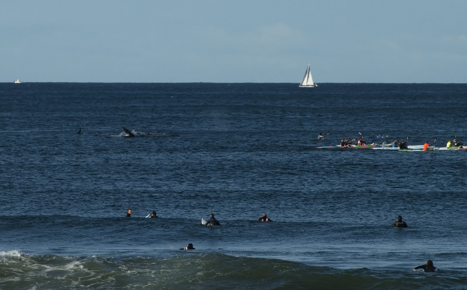 Does your beach have these? A pair of whales visited Manly Beach today. They were very active splashing about and surfacing regularly.